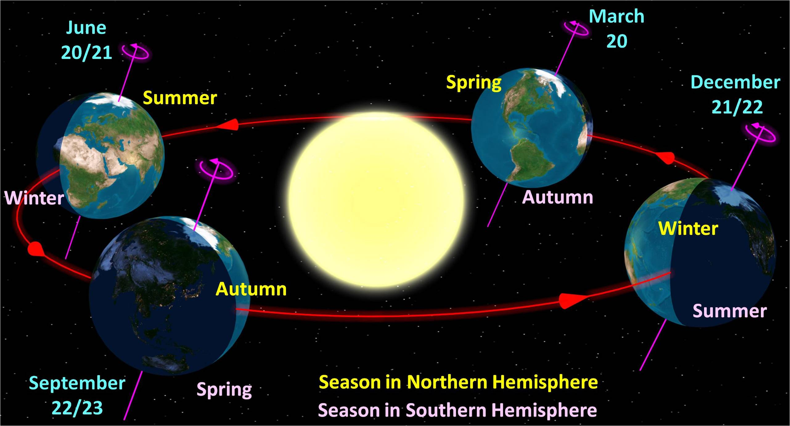 The Earth at the start of the 4 (astronomical) seasons as seen from the north and ignoring the atmosphere (no clouds, no twilight).